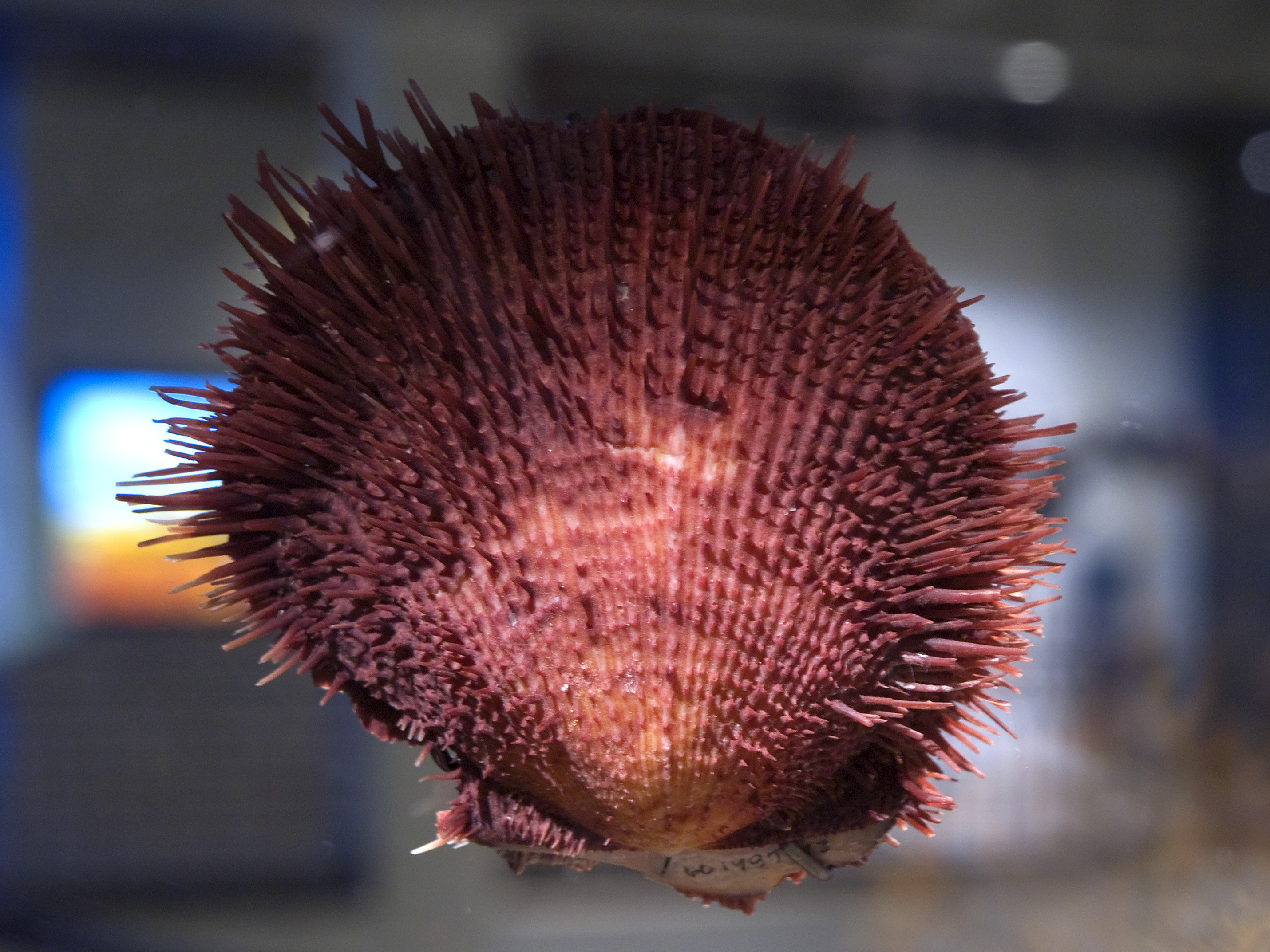 Spondylus linguaefelis (Cat’s tongue oyster) Hawaii HMNS 60.1997.10 Wikipedia Loves Art at the Houston Museum of Natural Science This photo of item # 60.1997.10 at the Houston Museum of Natural Science was contributed under the team name "Assignment_Houston_One" as part of the Wikipedia Loves Art project in February 2009. Houston Museum of Natural Science The original photograph on Flickr was taken by skarsol—please add a comment to the original Flickr page whenever a use has been made on Wikipedia or another project. Project galleries on Flickr: this institution, this team